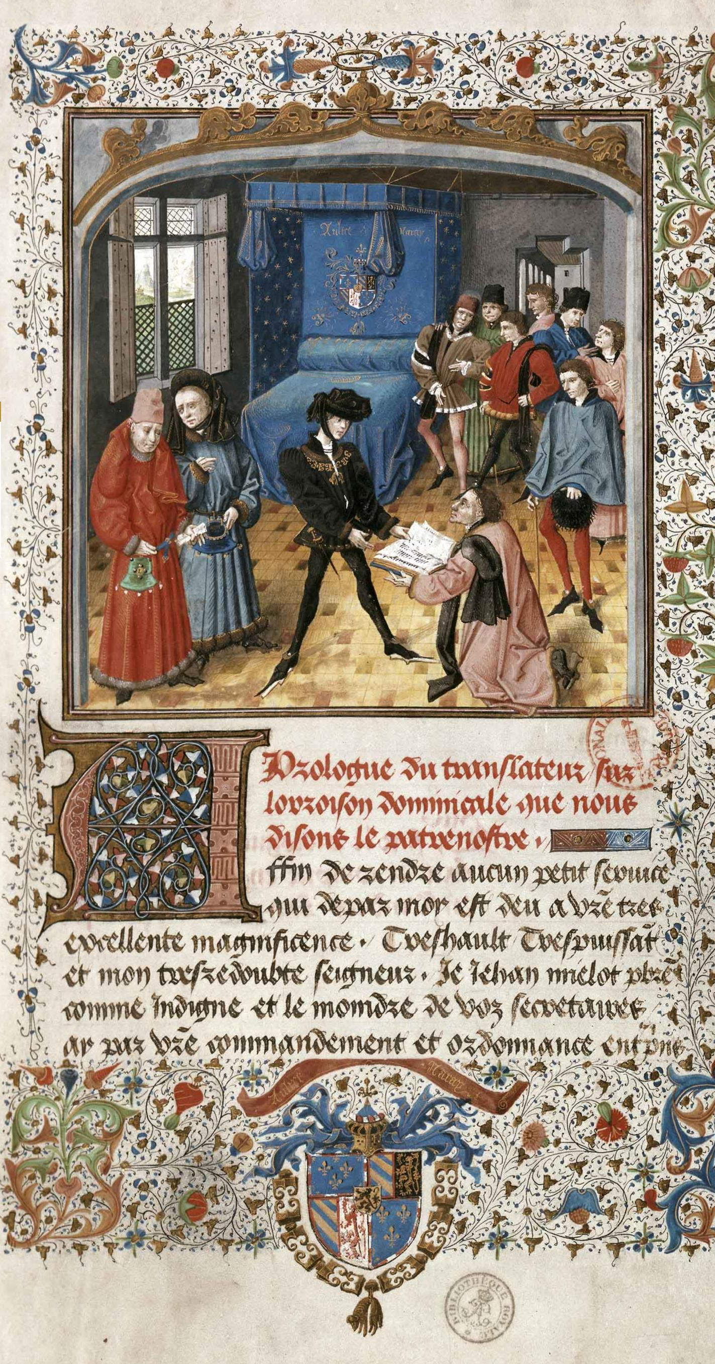 Presentation by Jean Miélot to Philip the Good, Duke of Burguundy, of his translation of the Traité sur l'oraison dominicale